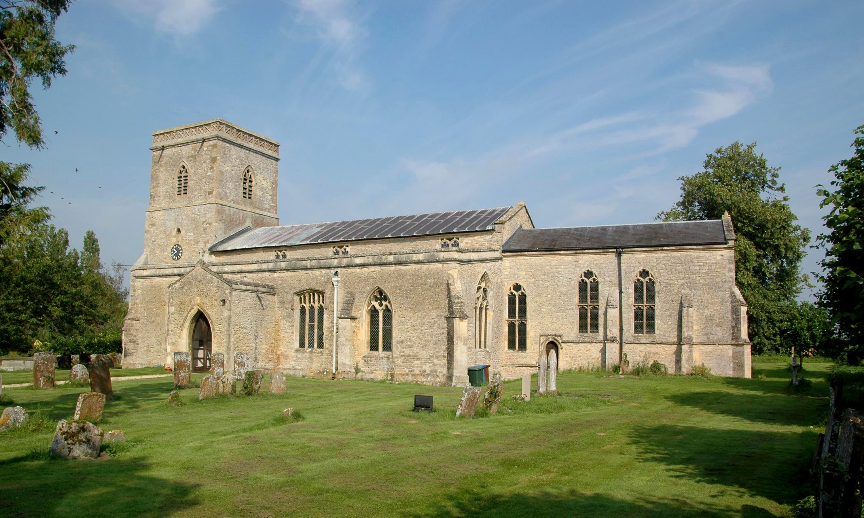 Church of England parish church of St Swithun, Merton, Oxfordshire: view from the south